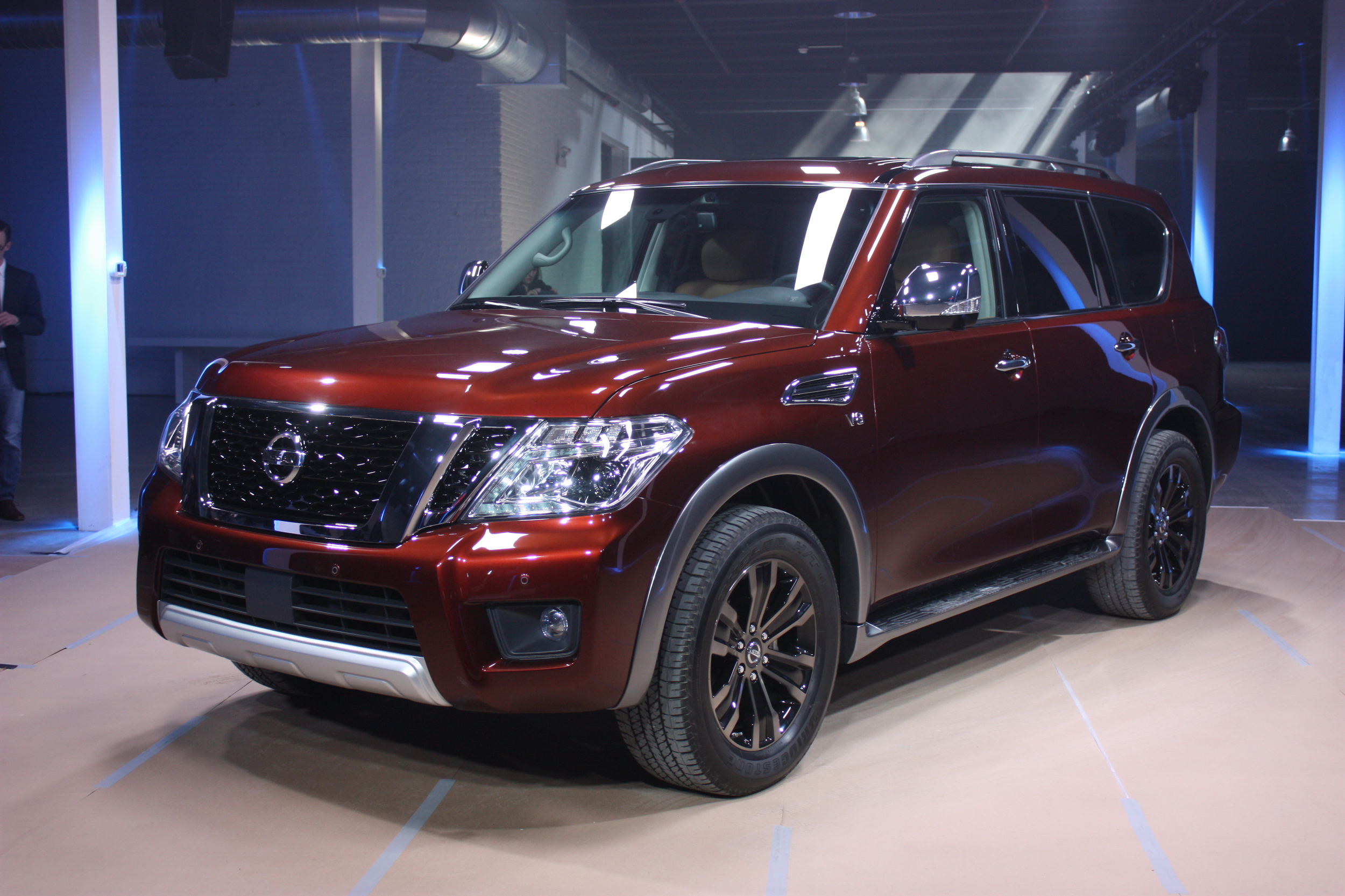 Display of the 2017 Nissan Armada